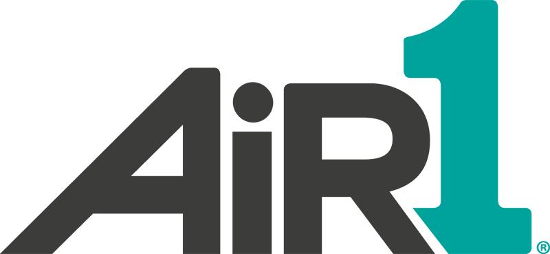 Logo of the radio stations WYRA and Air 1